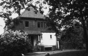 Reifensteiner Schule Häckingen Waldhaus. Der Name Waldhaus Häckingen ist ein anderer Name für die Villa Möllering.